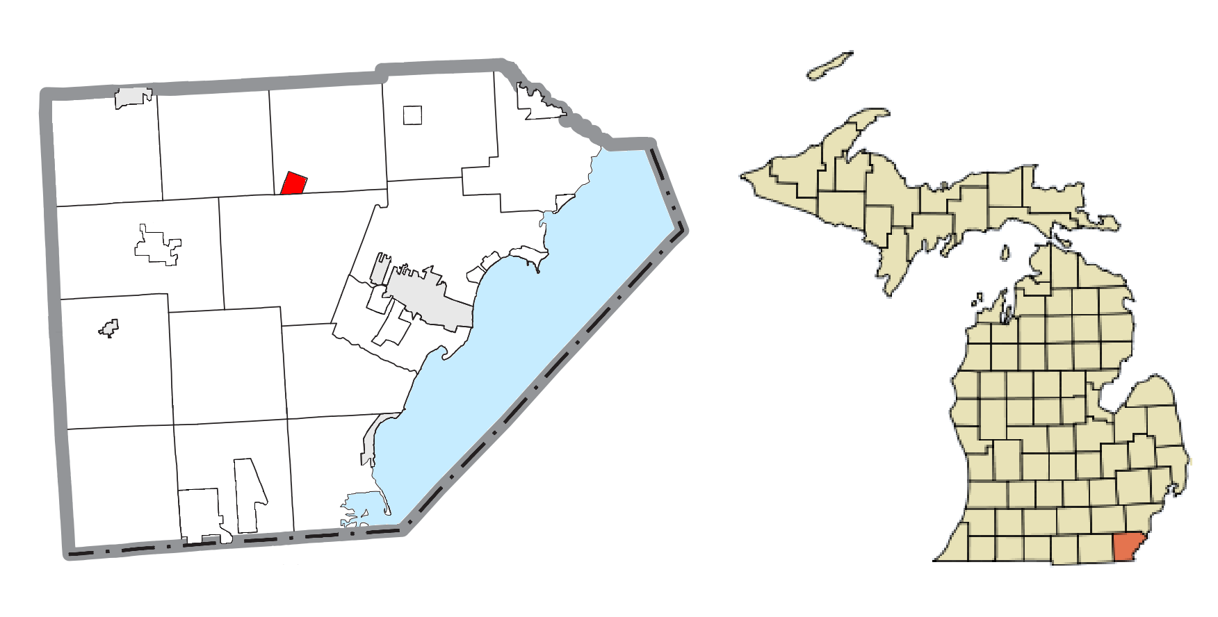 Maybee, MI